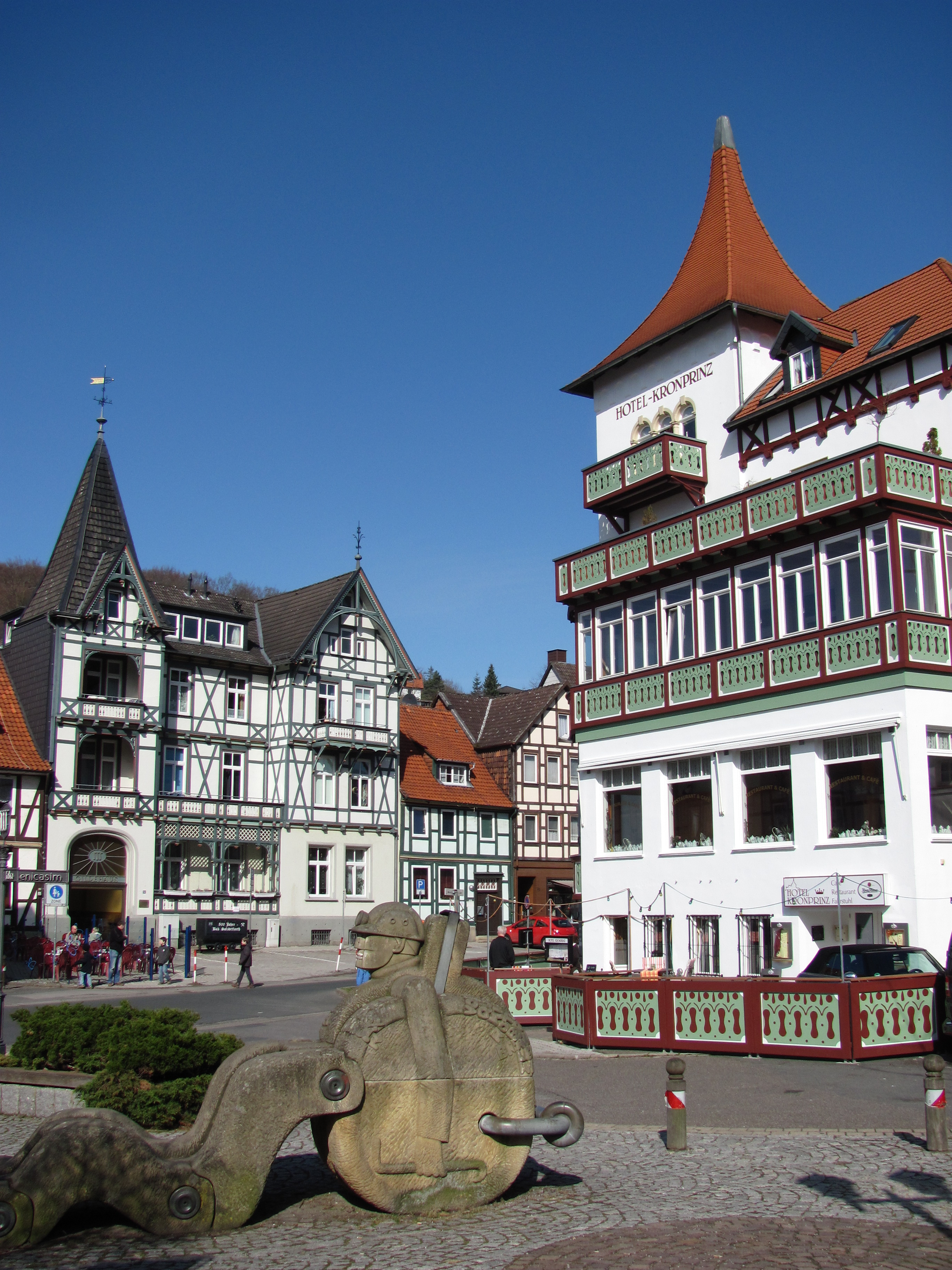 Miners' Guildhall and Memorial, Bad Salzdetfurth, Lower Saxony, Germany